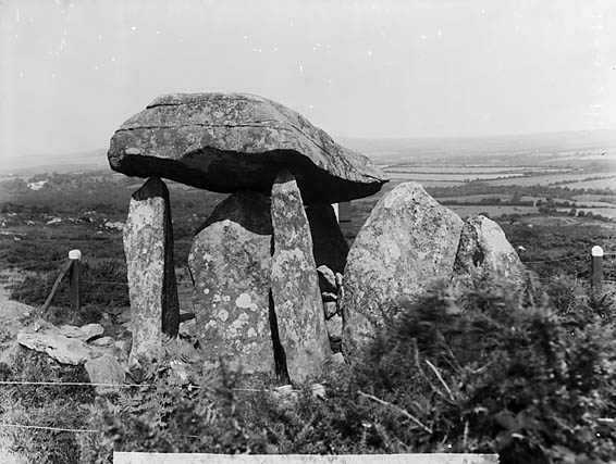 1 negative : glass, dry plate, b&w ; 16.5 x 21.5 cm.